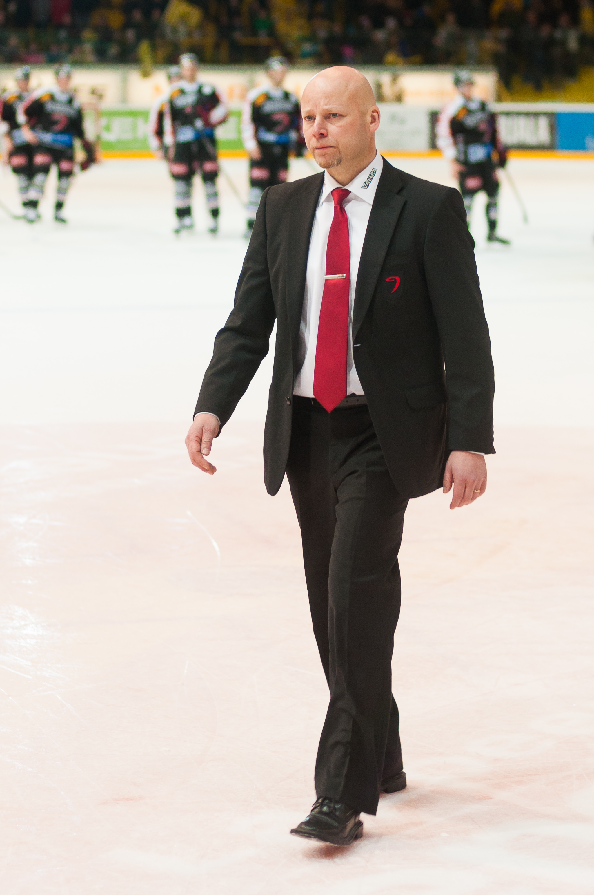 Finnish ice hockey coach and former player Marko Virtanen, the head coach of Jyväskylä's JYP, after a game against SaiPa in Lappeenranta, Finland.